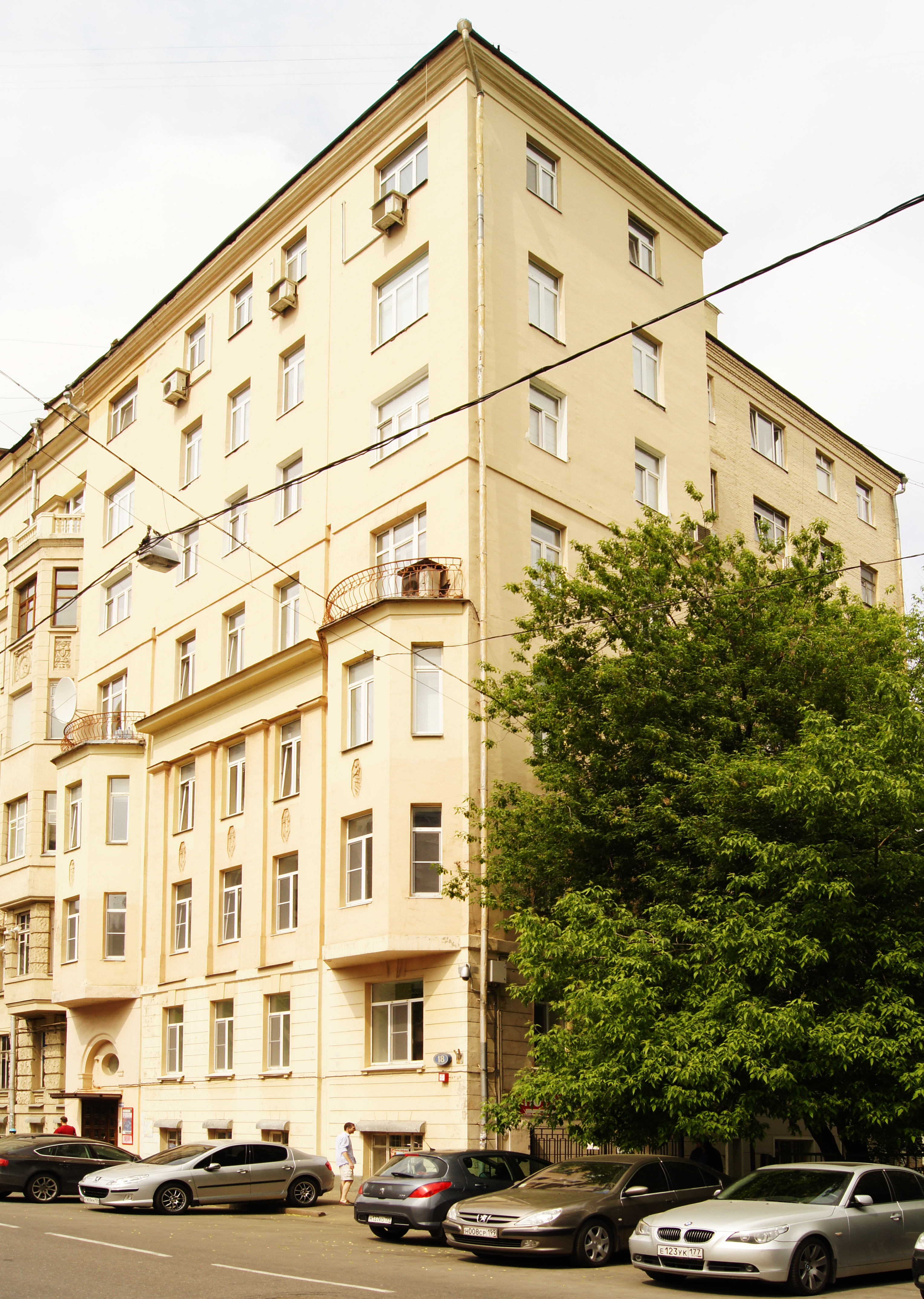 Povarskaya Street Moscow 18